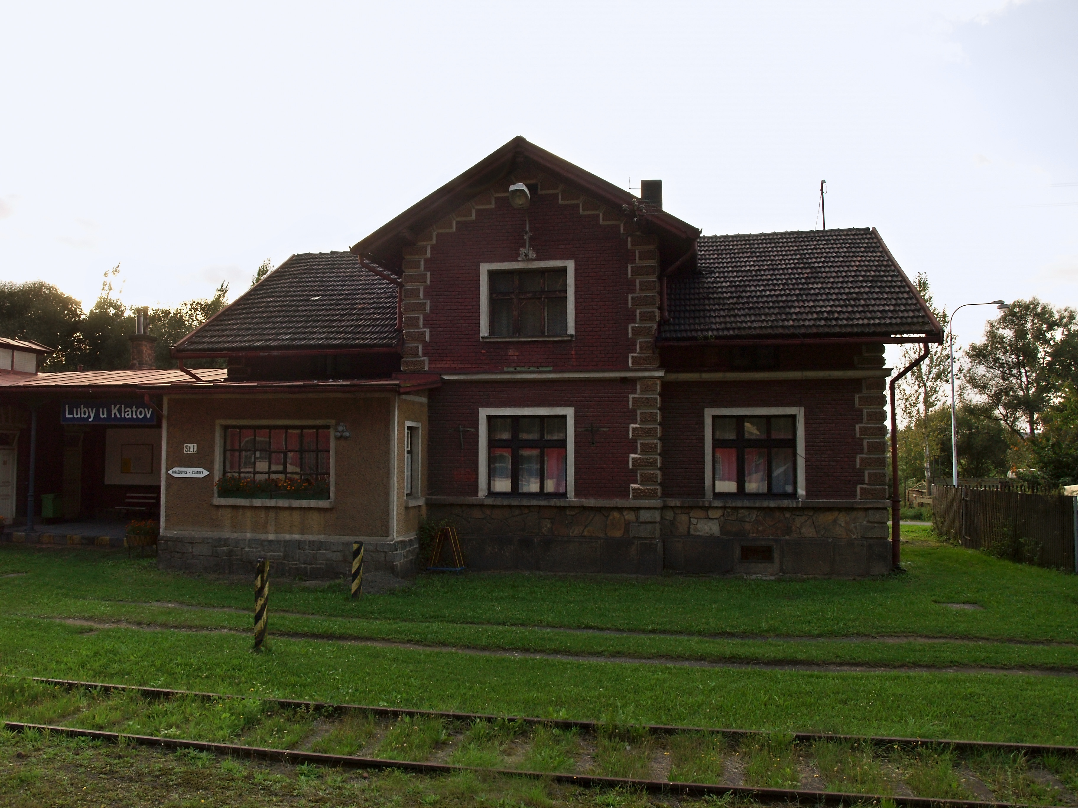 Czech village Luby u Klatov (part of Klatovy) – train station